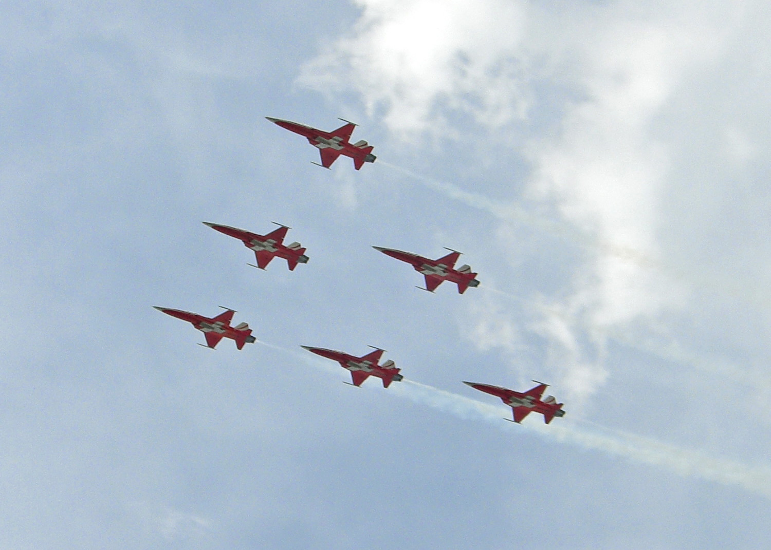 Patrouille Suisse during a demonstration show at the Hamburg Harbour Birthday 2009. Switzerland was the partner country of the Harbour Birthday this year. The stylized diagonal Swiss Cross can be seen at the bottom of the aircrafts.